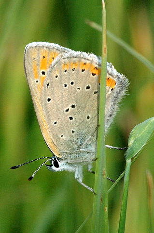 Picture taken in Commanster, Belgian High Ardennes . Species: Lycaena hippothoe